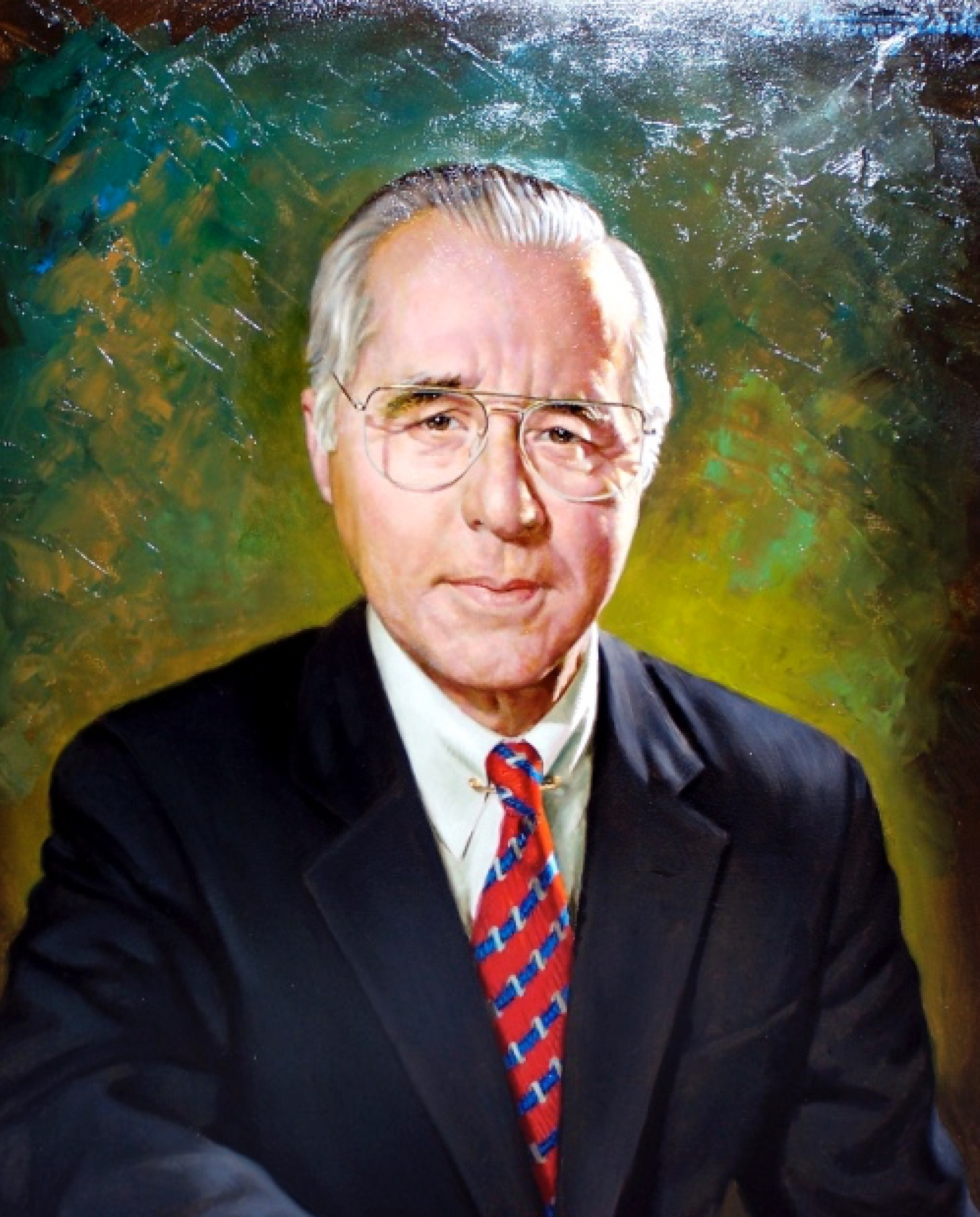 McCowan Portrait